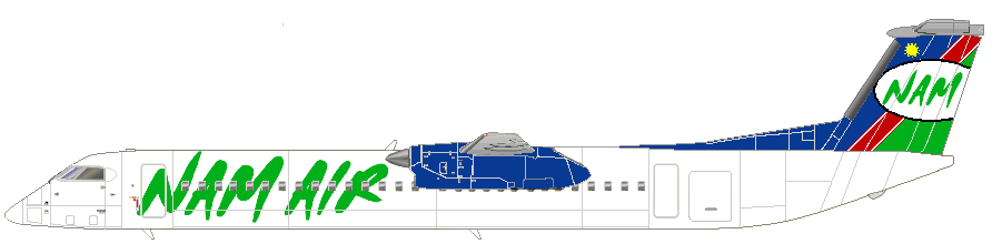 Bombardier Dash 8 in NAM AIR (Namibia) livery